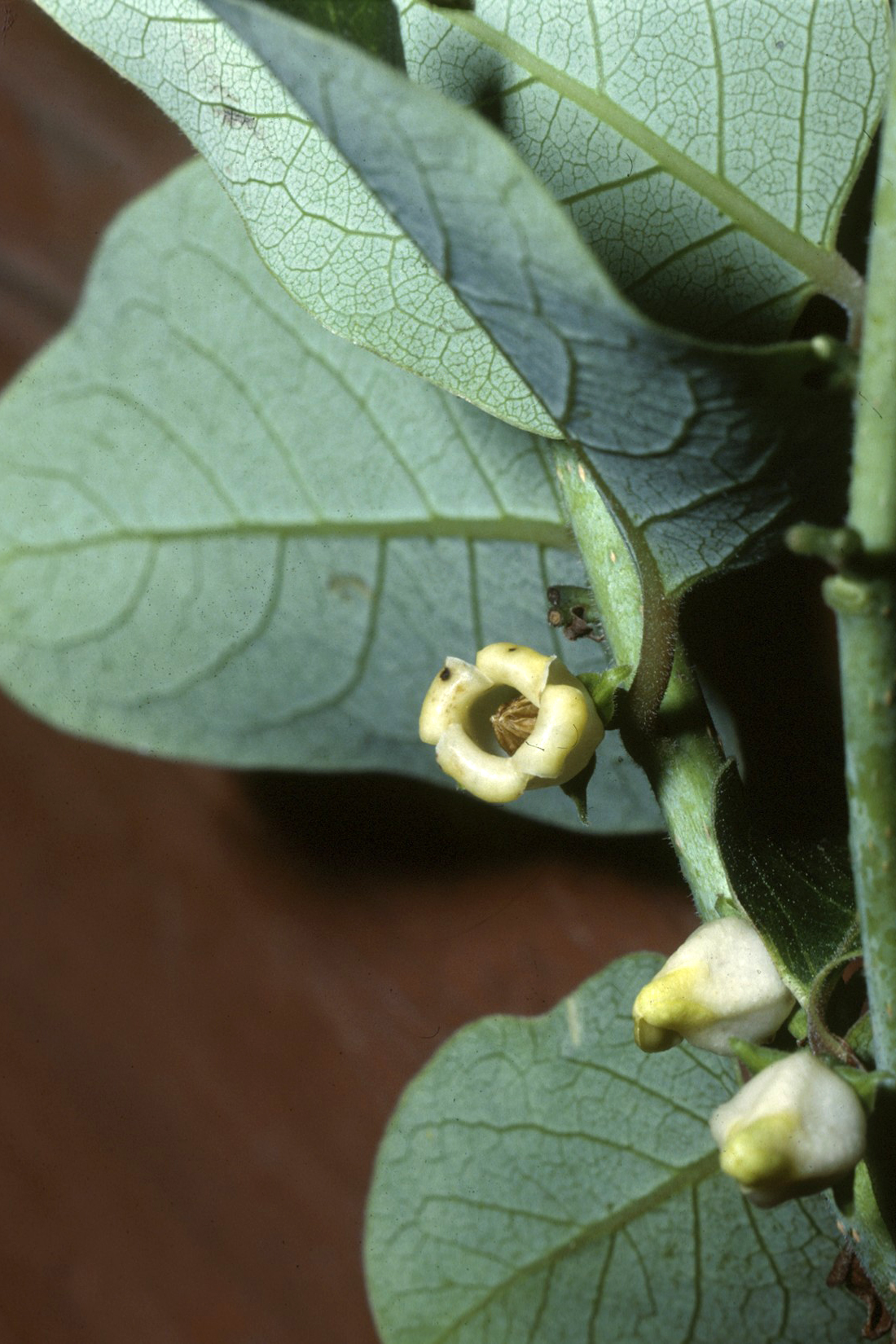 Diospyros virginiana L. - common persimmon